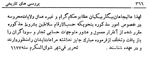 Decree signed by Karim Khan (1750-1779)